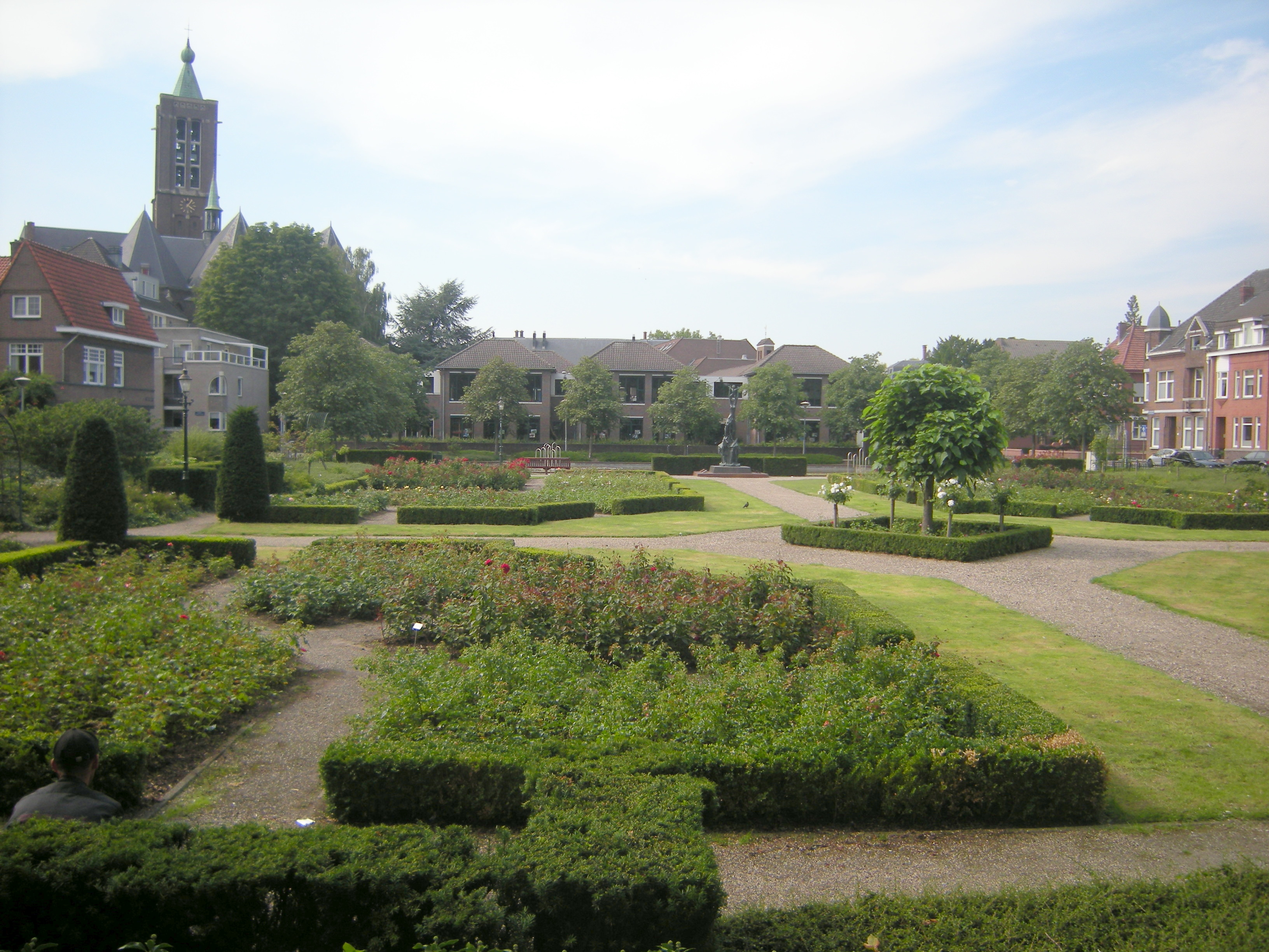 Rosarium Venlo